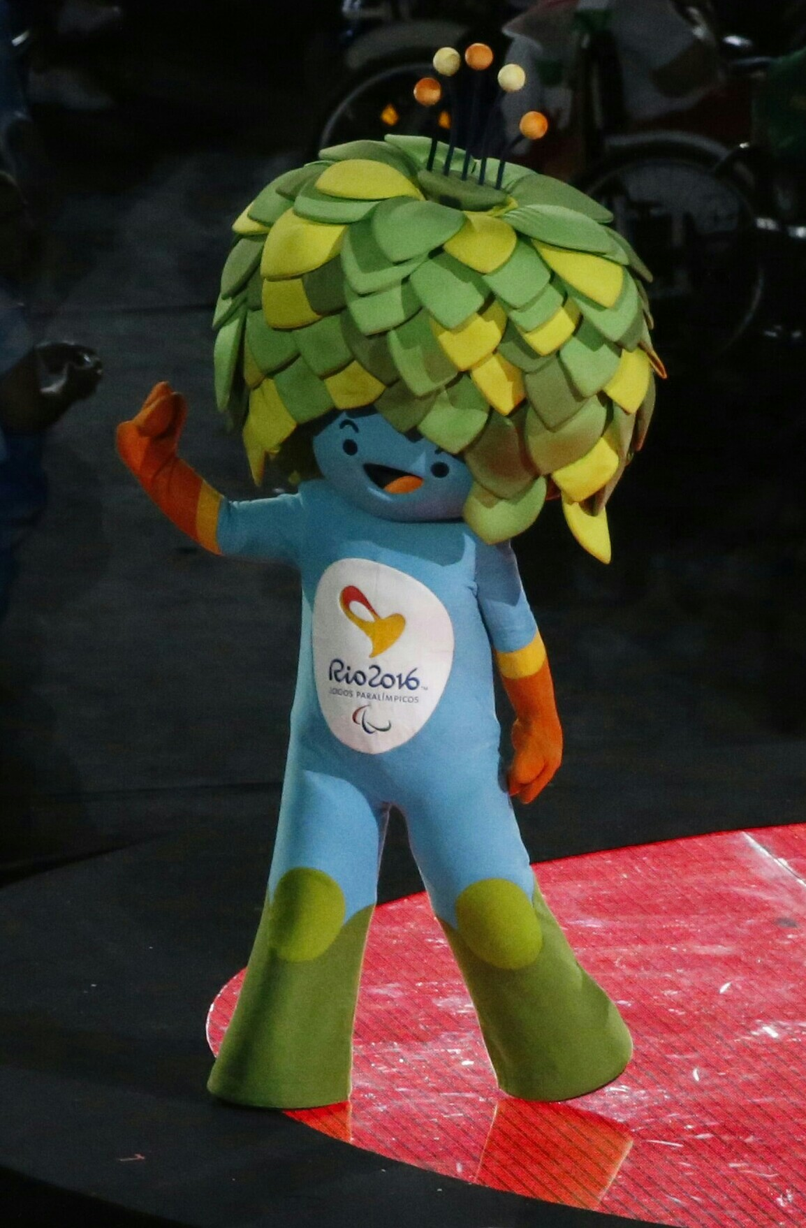 Tom, official mascot of 2016 Summer Paralympics.